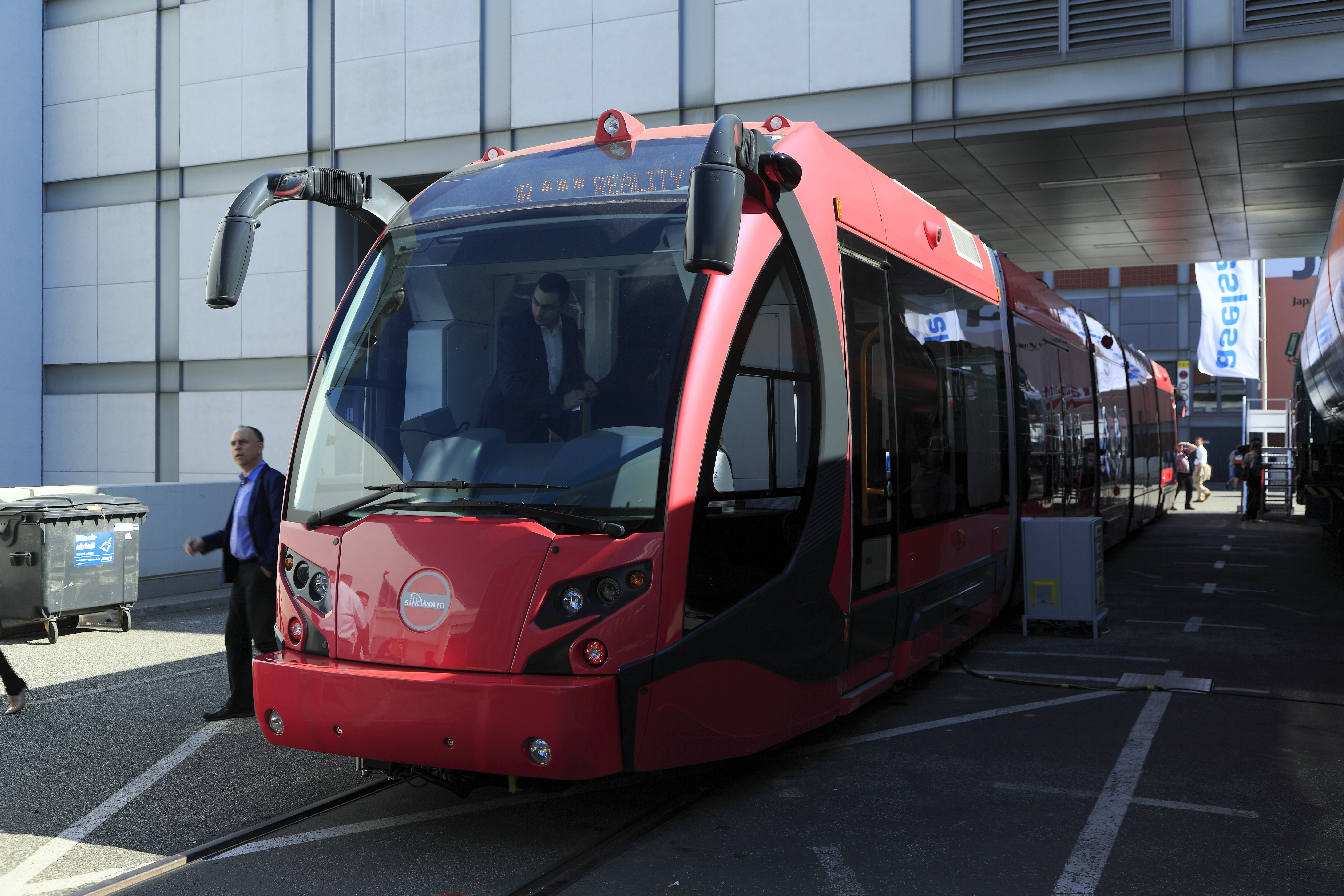 Tram type "Silkworm" (from the city of Bursa) produced by the Turkish manufacturer Durmazlar, at InnoTrans 2018 in Berlin, Germany